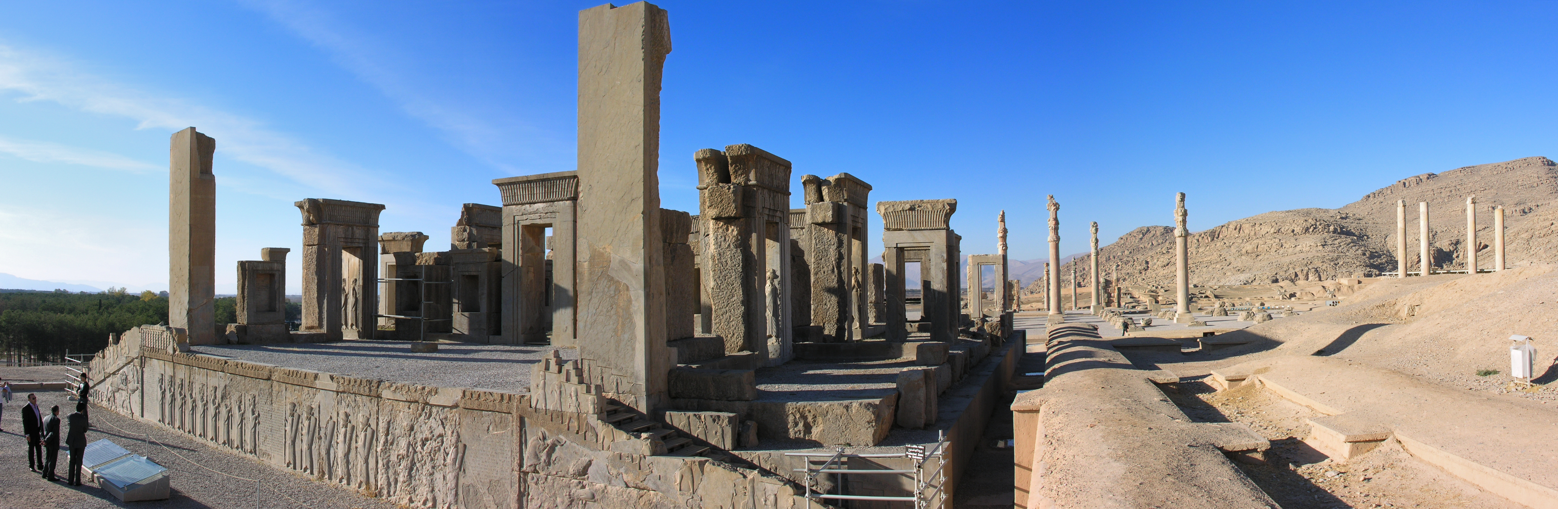 Iran, Panoramic views of Persepolis